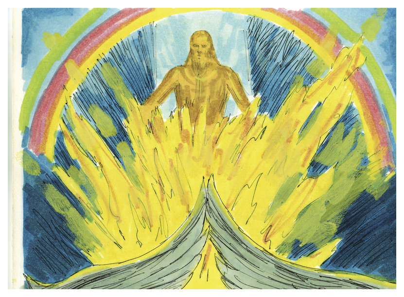 Biblical illustration of Book of Ezekiel Chapter 1